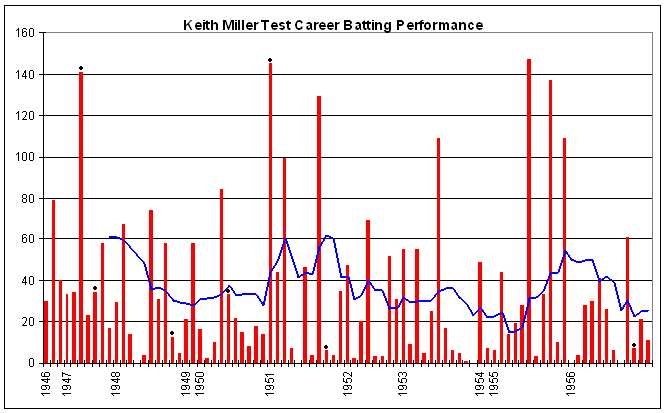 Test batting chart of Keith Miller. Red columns are the runs in the innings. Blue dots indicate not outs. Blue line is average in the last ten innings. Thanks to Raven4x4x for providing the template.